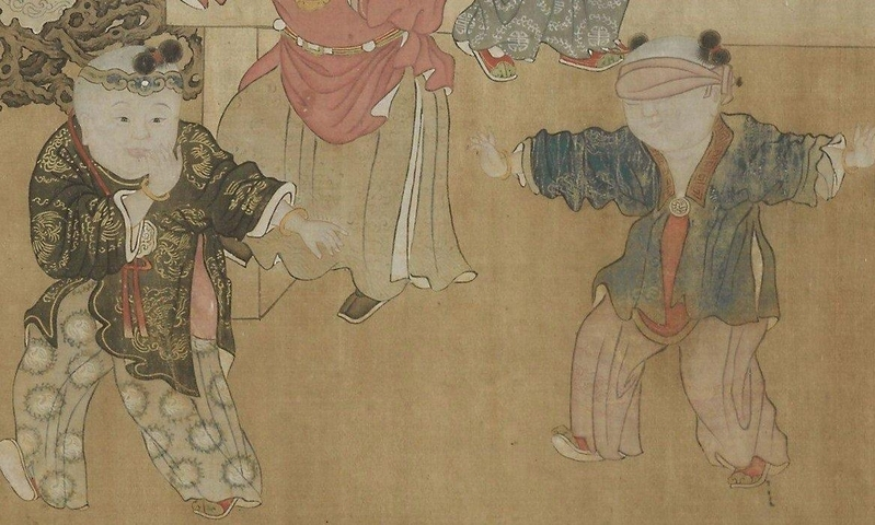 Children playing